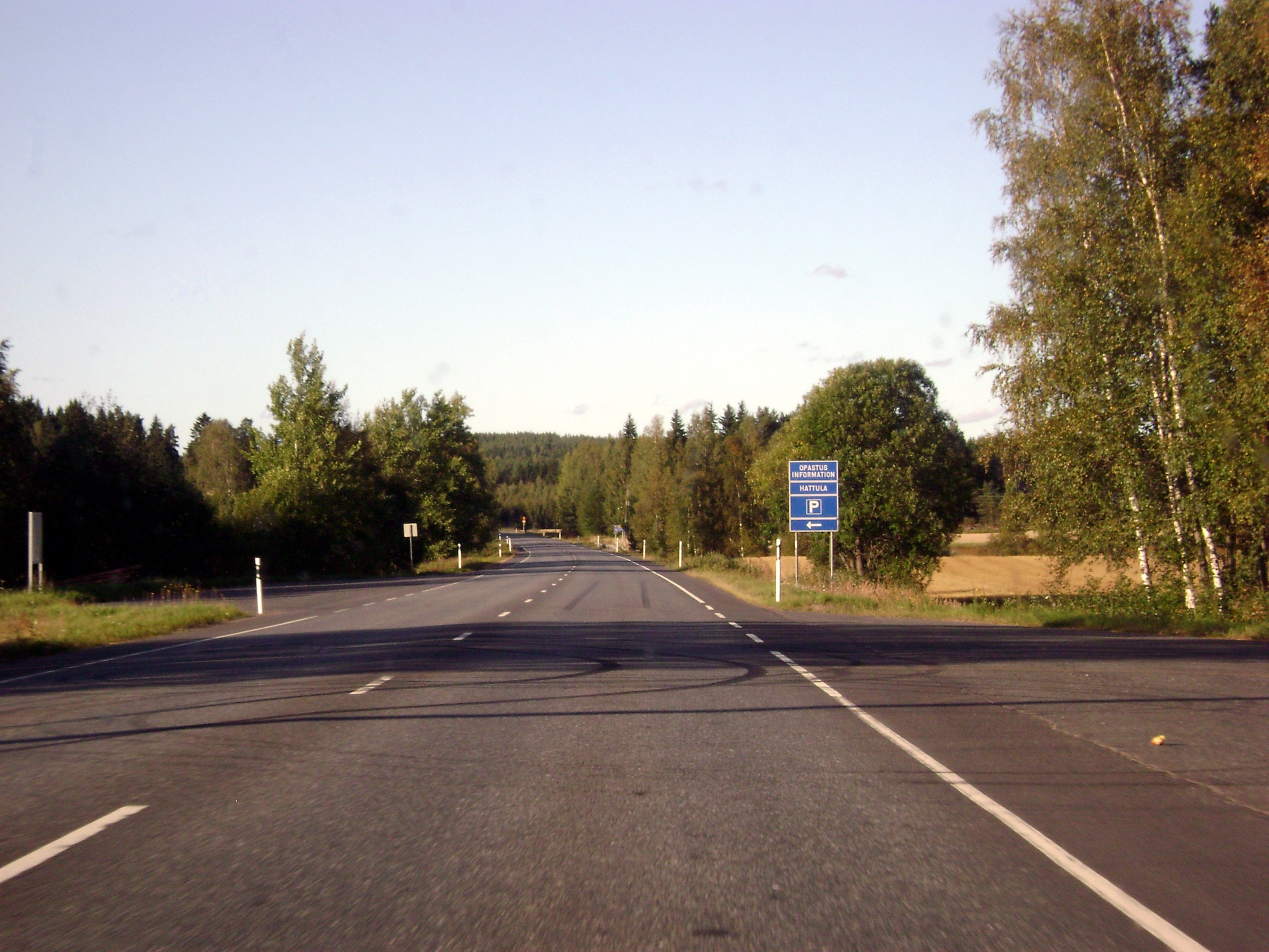 Highway 57 north of Parola, Hattula, Finland.